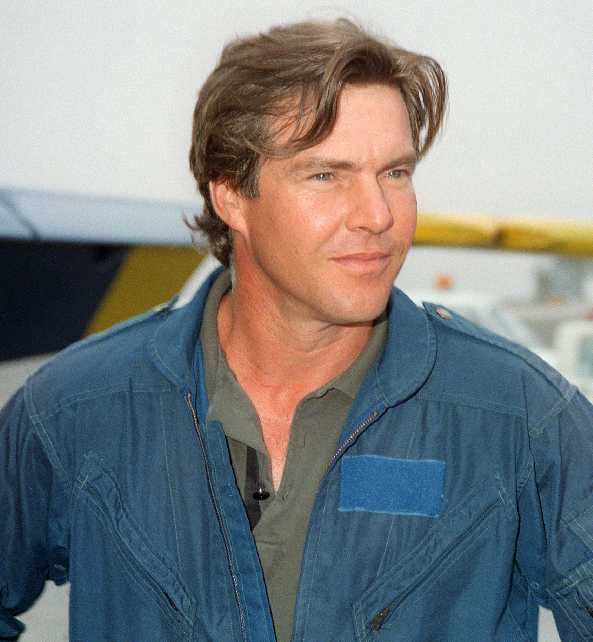 Actor Dennis Quaid prepares for a VIP flight with the US Navy (USN) Blue Angels.